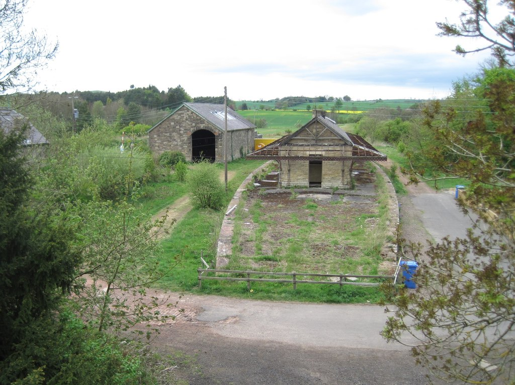 Whittingham railway station (site), NorthumberlandOpened in 1887 by the North Eastern Railway on the line from Alnwick to Coldstream, this station closed to passengers in 1930 and completely in 1953. View north towards Glanton and Coldstream.